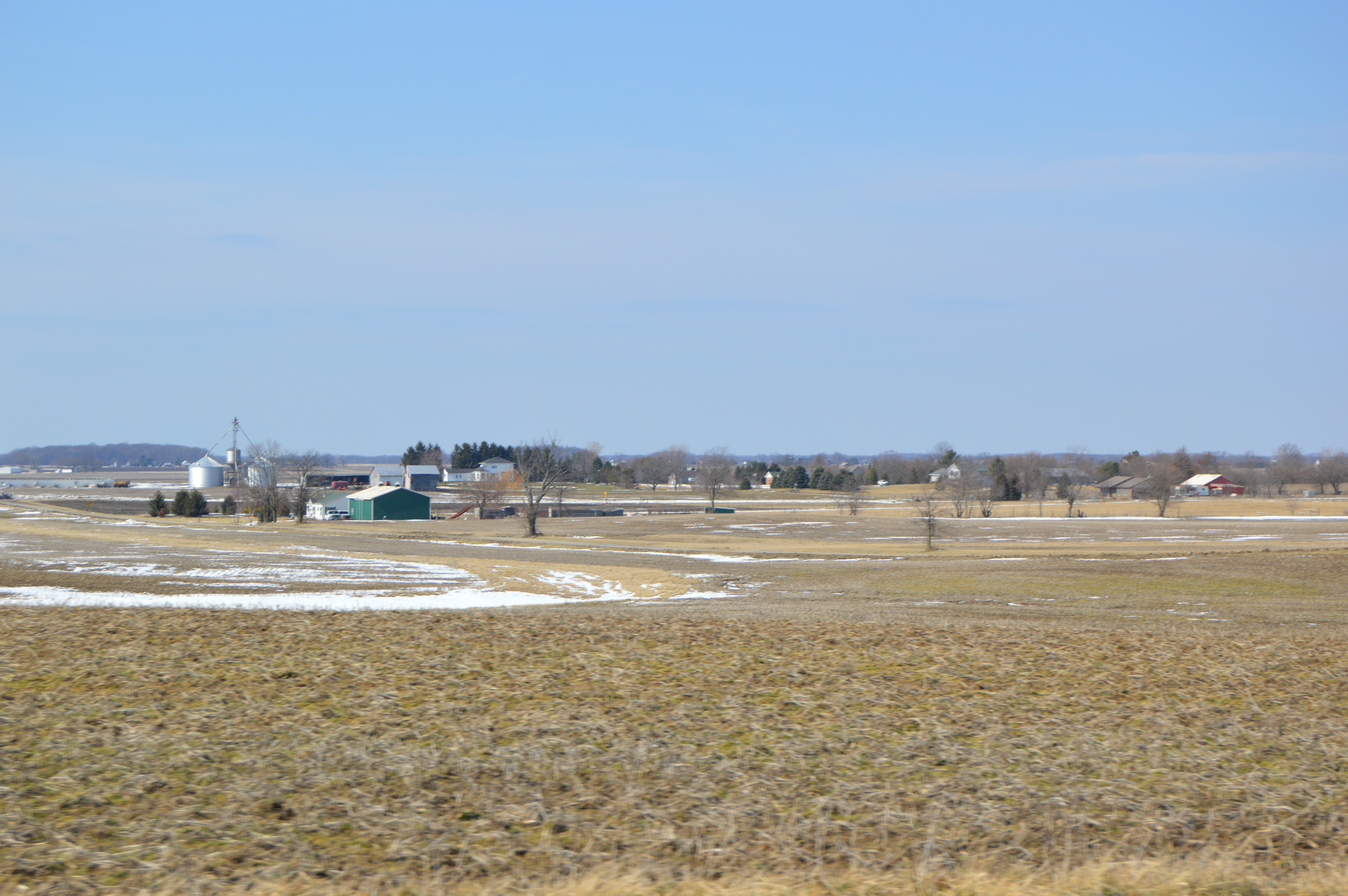 Fields and farmsteads north of Bowersville, seen looking west from State Route 72 just south of Davis Road, in Jefferson Township, Greene County, Ohio, United States.